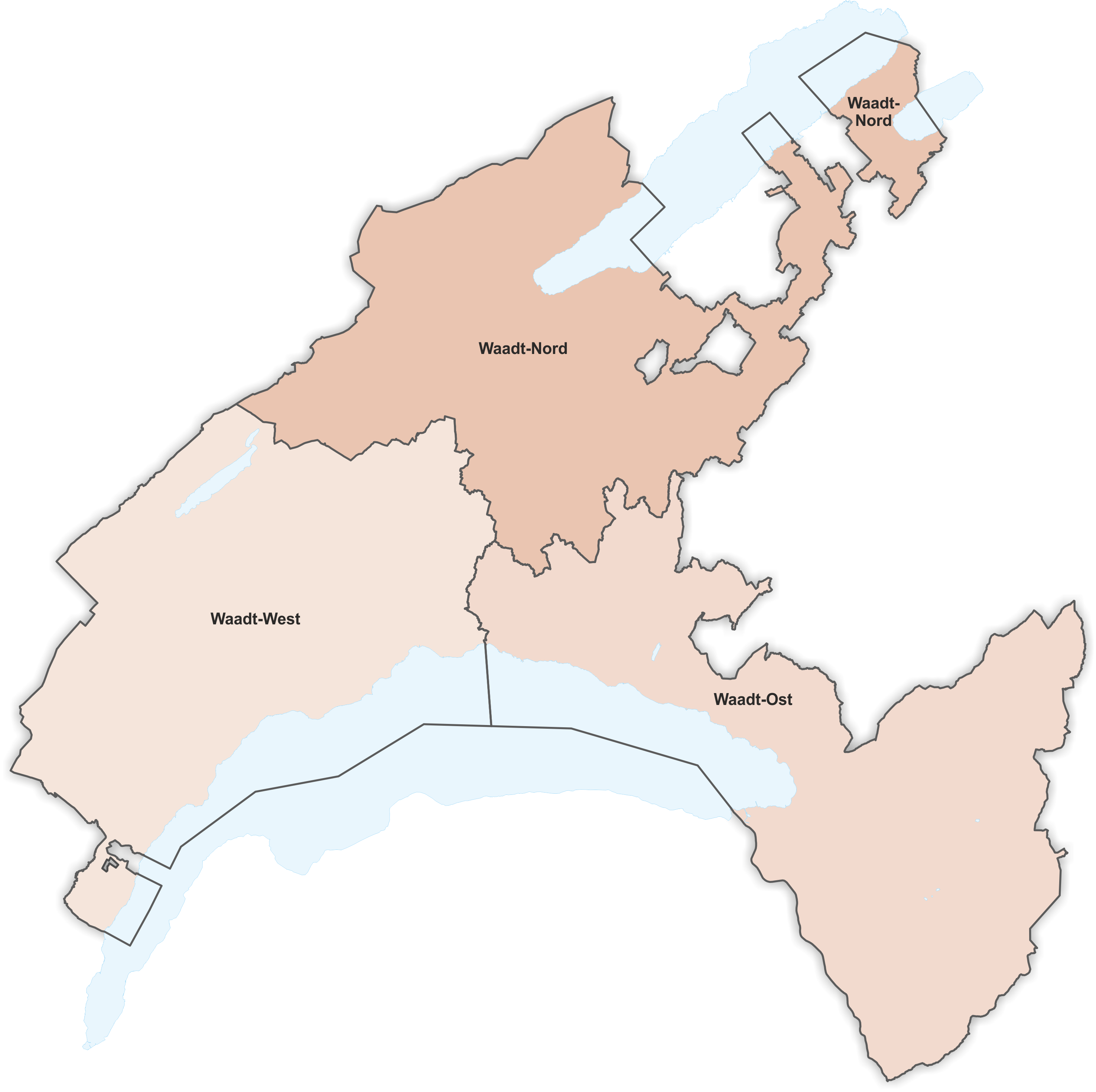 National council constituencies in the canton of Vaud from 1881 to 1908